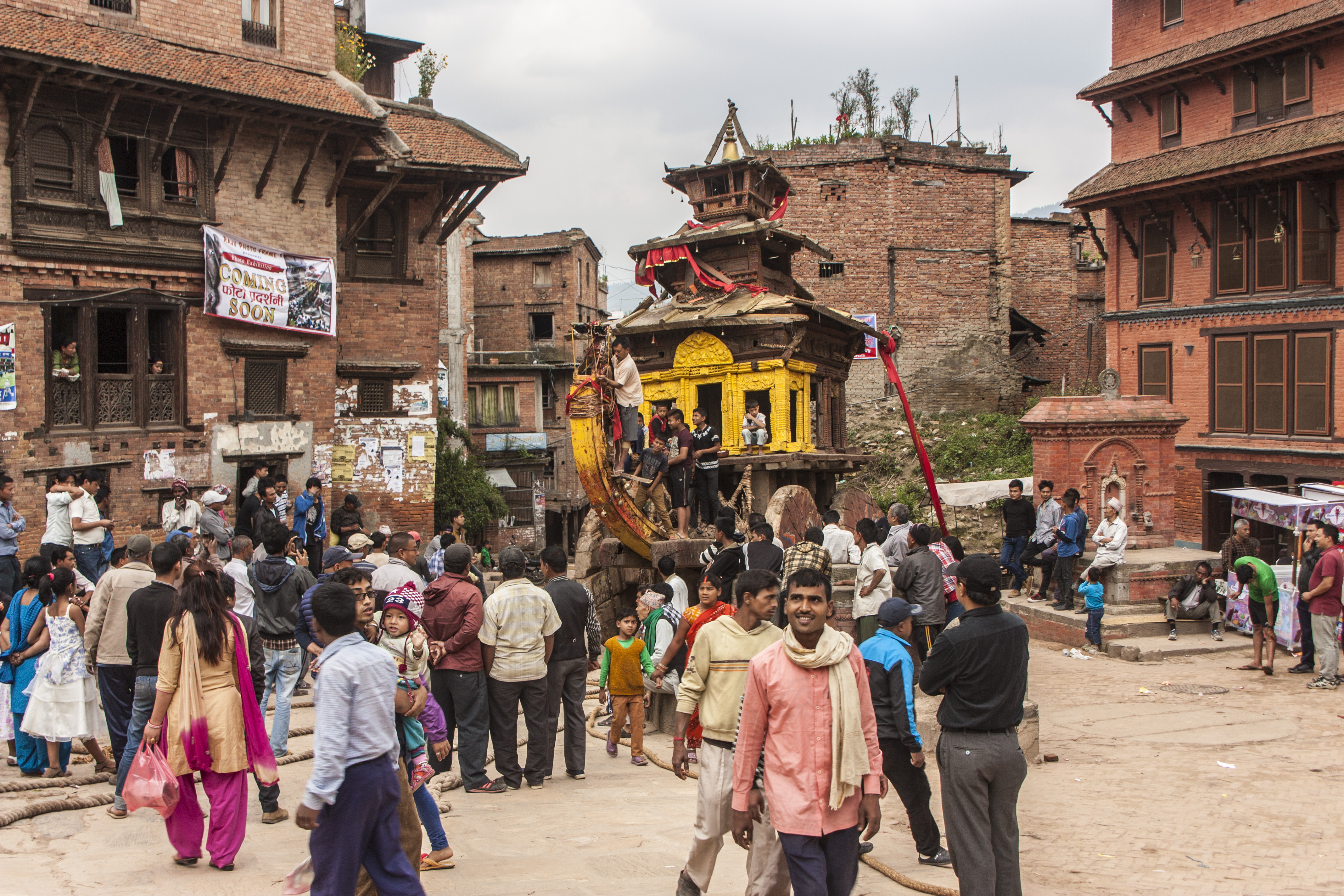 Cart of Bisket Jatra